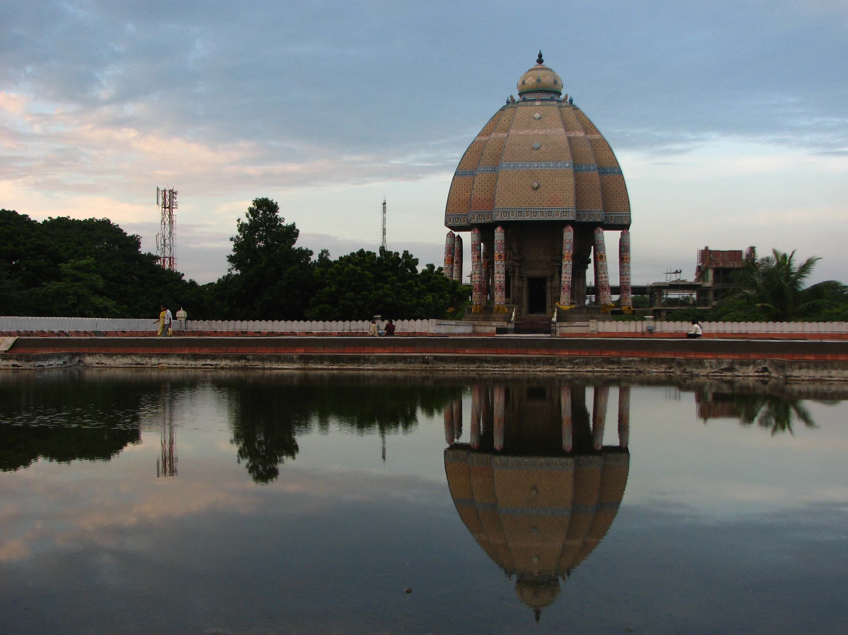 Valluvar Kottam from the Terrace of the exhibition hall.